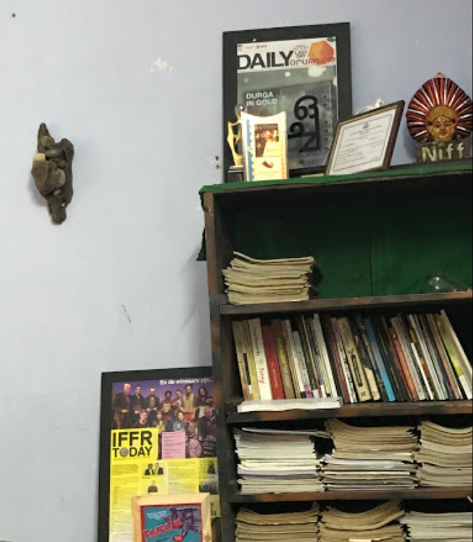 Inside of Kazhcha Chalachithra Vedi